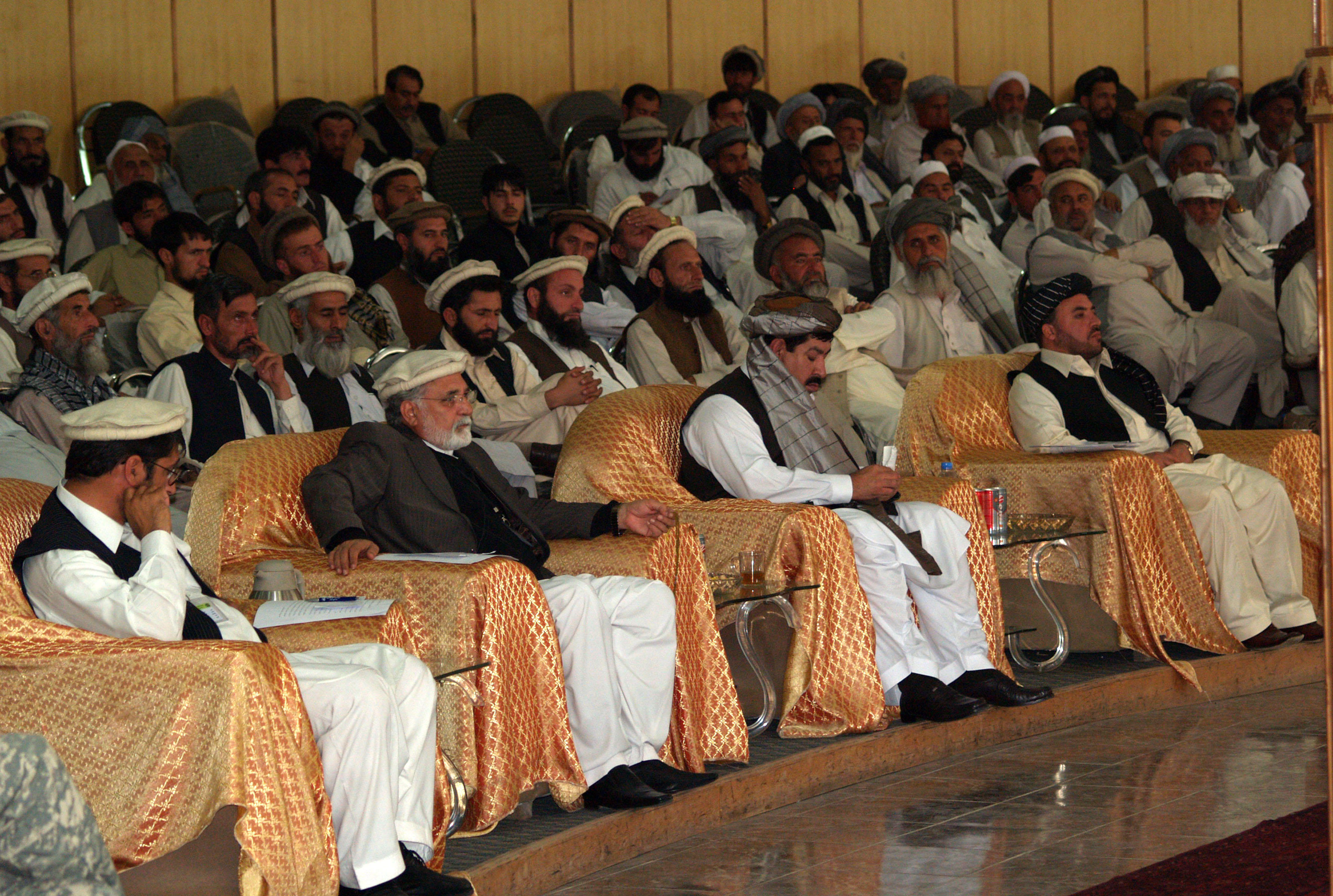 From left to right: Jamaluddin Badar, Nuristan provincial governor, Fazlullah Wahidi, Kunar provincial governor, Gul Agha Sherzai, Nangarhar provincial governor, and Lutfullah Mashal, Langham provincial governor, listen to speakers during the the first regional Jirga to talk about peace, prosperity and the rehabilitation of Afghanistan. The provincial governors of Nangarhar, Kunar, Nuristan and Langham and elders representing tribes, villages and districts gathered at the Nangarhar governor's compound to lay out their homegrown plan to improve the security and development of the four easternmost Afghanistan provinces Oct. 22, 2009. More than 300 leaders and elders attended the Jirga, which has an overarching purpose to engage anti-government elements and the local population to bring them closer to the government, while maintaining a close relationship with Coalition Forces.